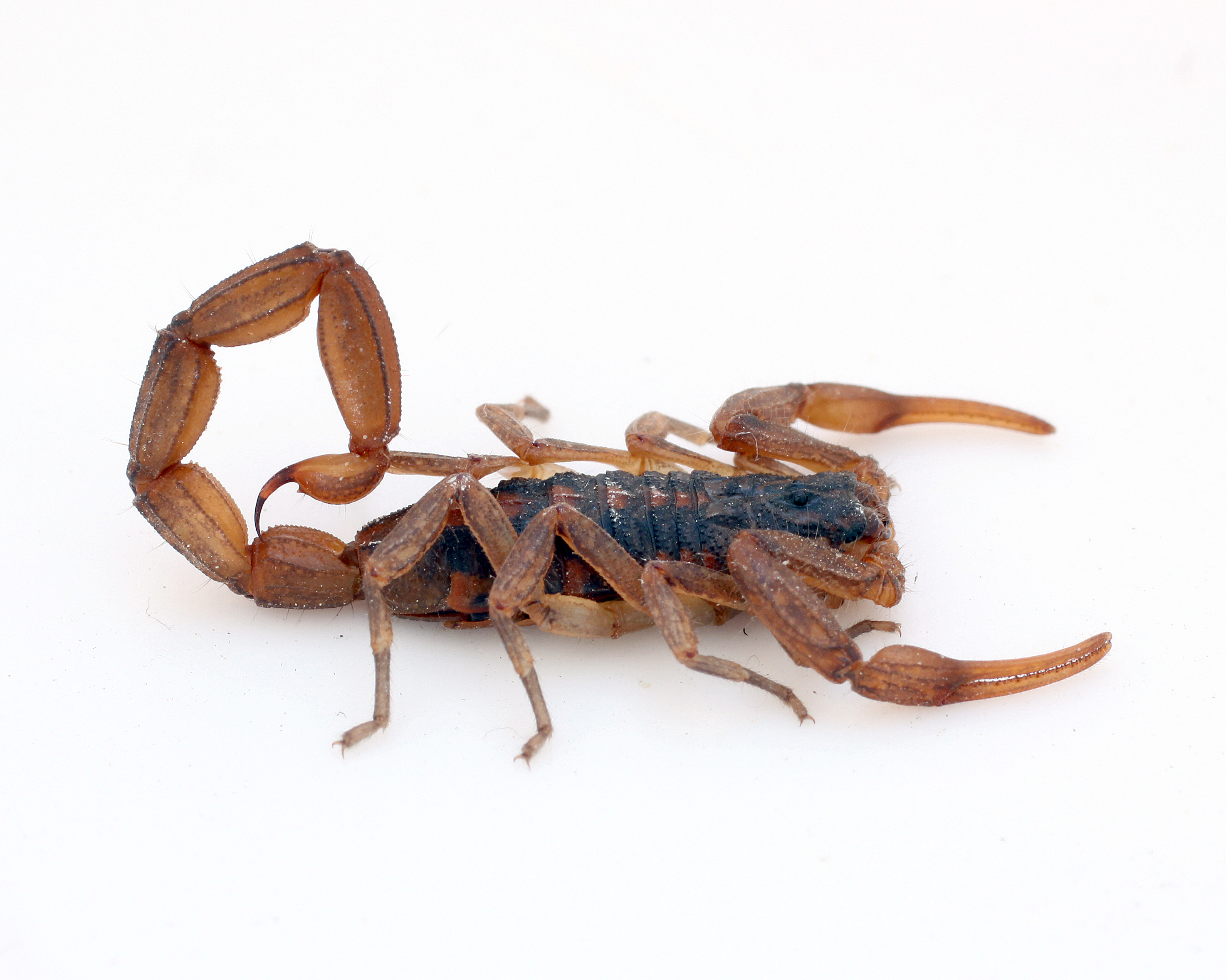 Good old Mexican scorpion, taken in Leon, Guanajuato, Mexico, the world´s capital of scorpion stingsª. Alacrán del estado de Guanajuato, México. (probably misidentified)